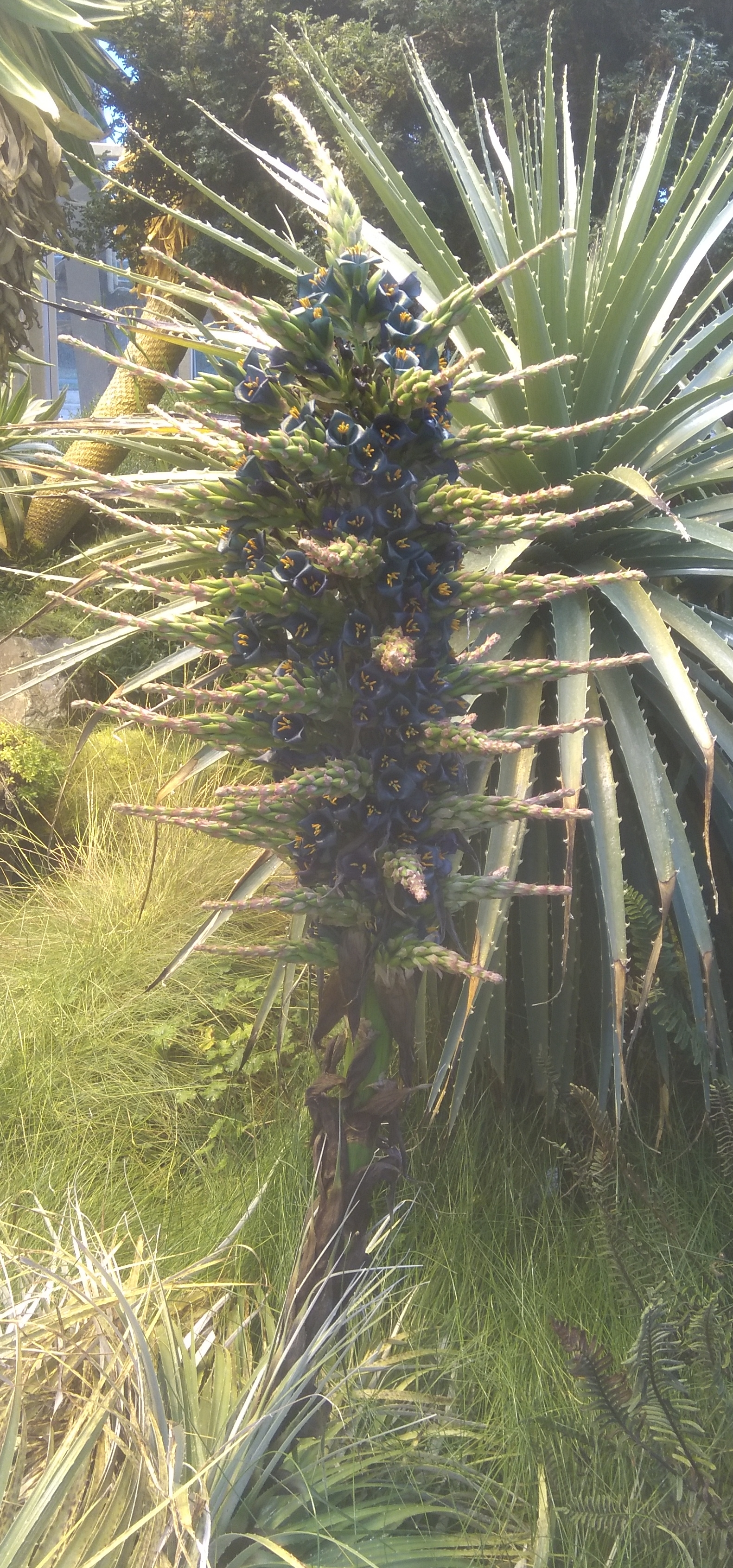 Puya alpestris, Ökologisch Botanischer Garten, University of Bayreuth, Germany